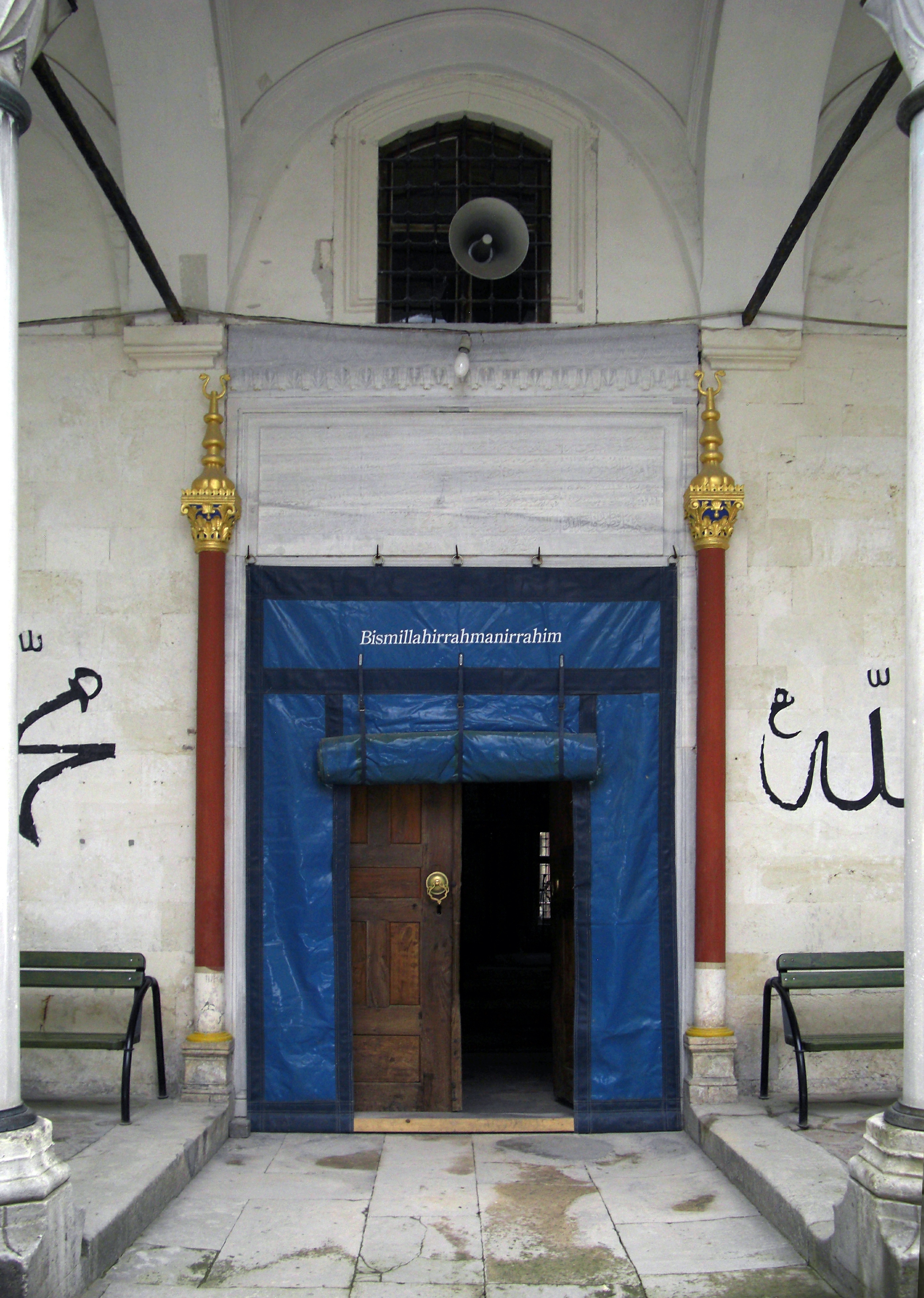 The entrance of the Tombul Mosque at Shumen in Bulgaria